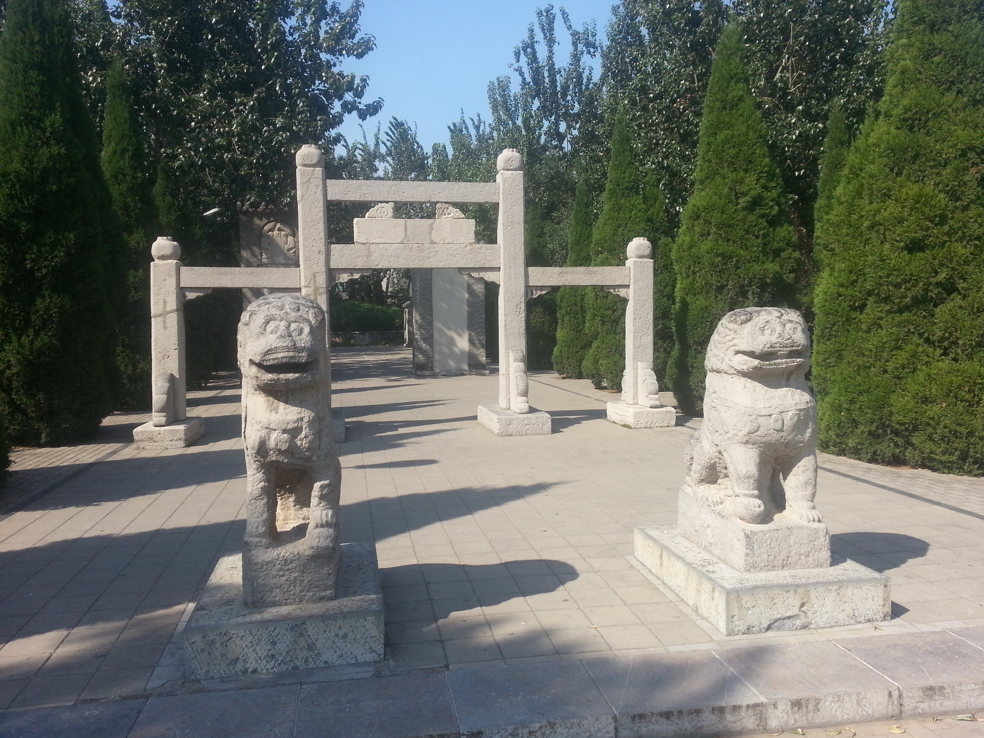 Photograph of the spirit way leading to the tomb of Zhang Yanghao, in Jinan, Shandong, China.